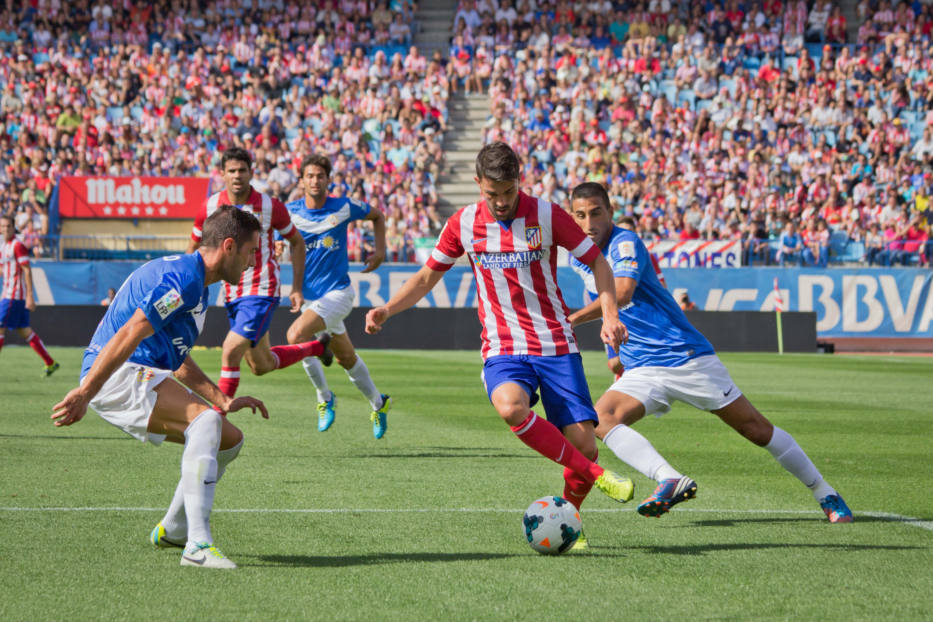 Atlético de Madrid vs UD Almería, 2013-2014 season.